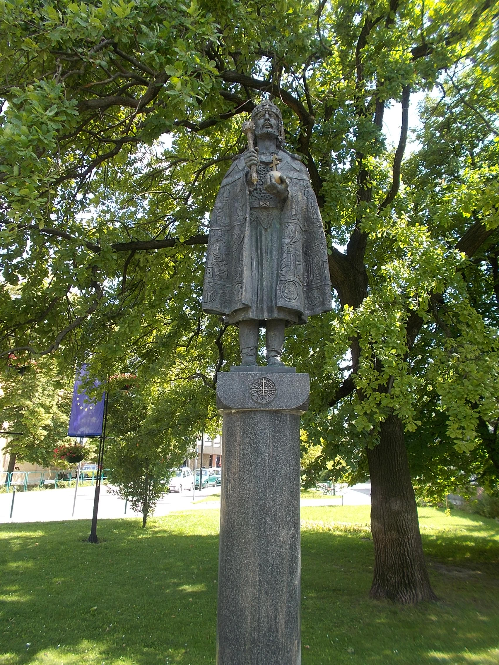 Statue of Stephen I of Hungary by József Rátonyi (Bronze statue on gray granite column base, gilded scepter, orb and crown, the royal mantle relief-like decorated). - Szent István square park, Old Town, Ráckeve, Pest County, Hungary.